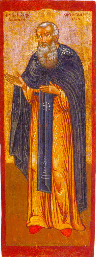 Saint Alexander of Votcha